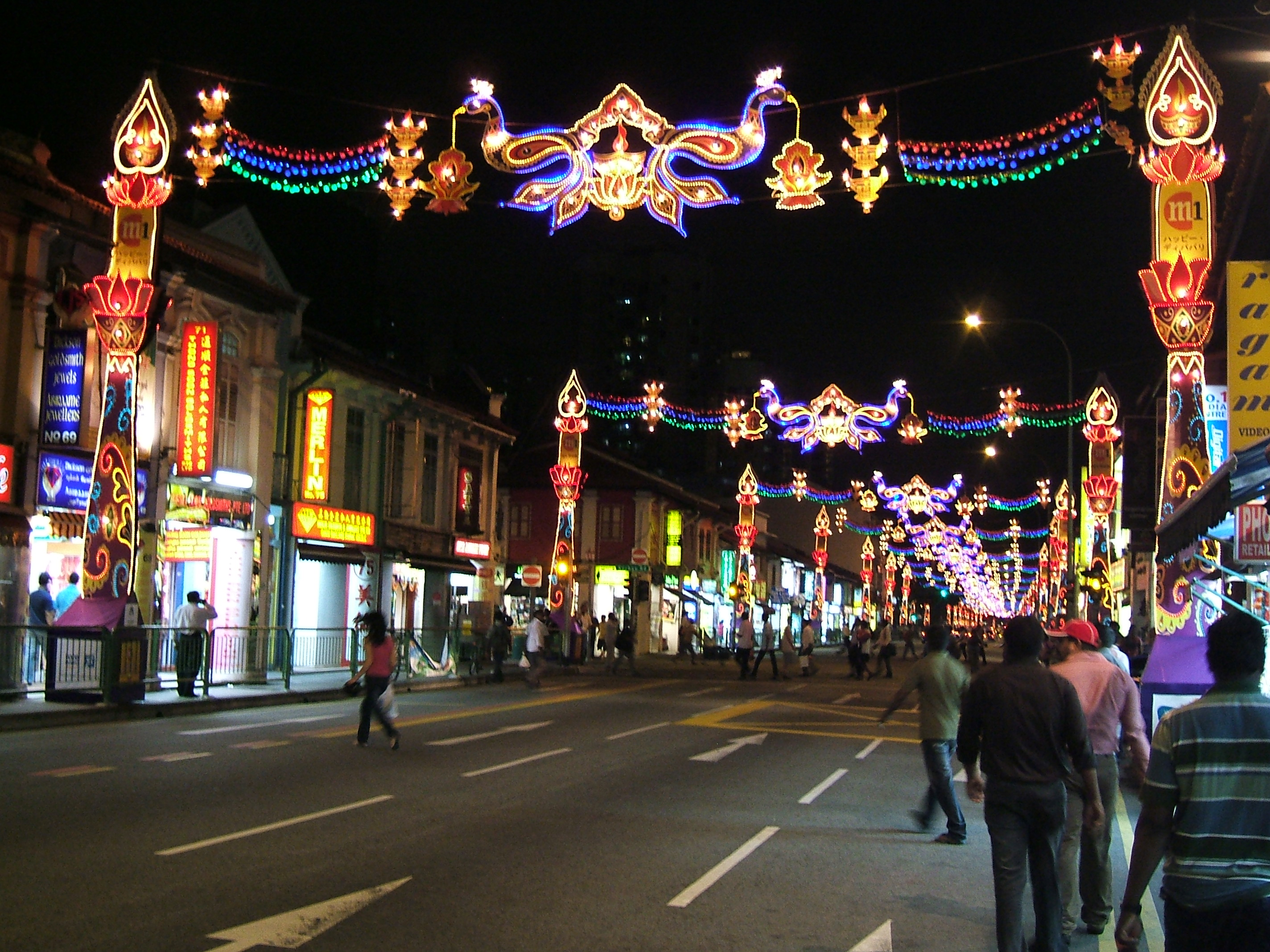 Diwali is celebrated by Hindu communities around the world. Above is a street in festive Diwali lights in Singapore, the week before Diwali. A view of the illuminated Serangoon Road in Little India. The decorations are for the Hindu Festival of Lights Diwali (a.k.a. Divali or Deepavali).